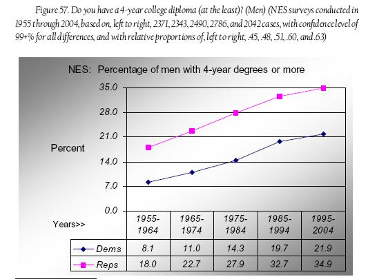 A comparison of Democratic and Republican men with 4-year college degreesAccording to author Joseph Fried, this graphic may utilize data extracted from two large data bases: the American National Election Studies (NES) and the General Social Surveys (GSS), the original sources of the data. The related analyses and conclusions are the responsibility of the author. Further relevant information concerning NES and GSS with regard to this group of images may be found here.